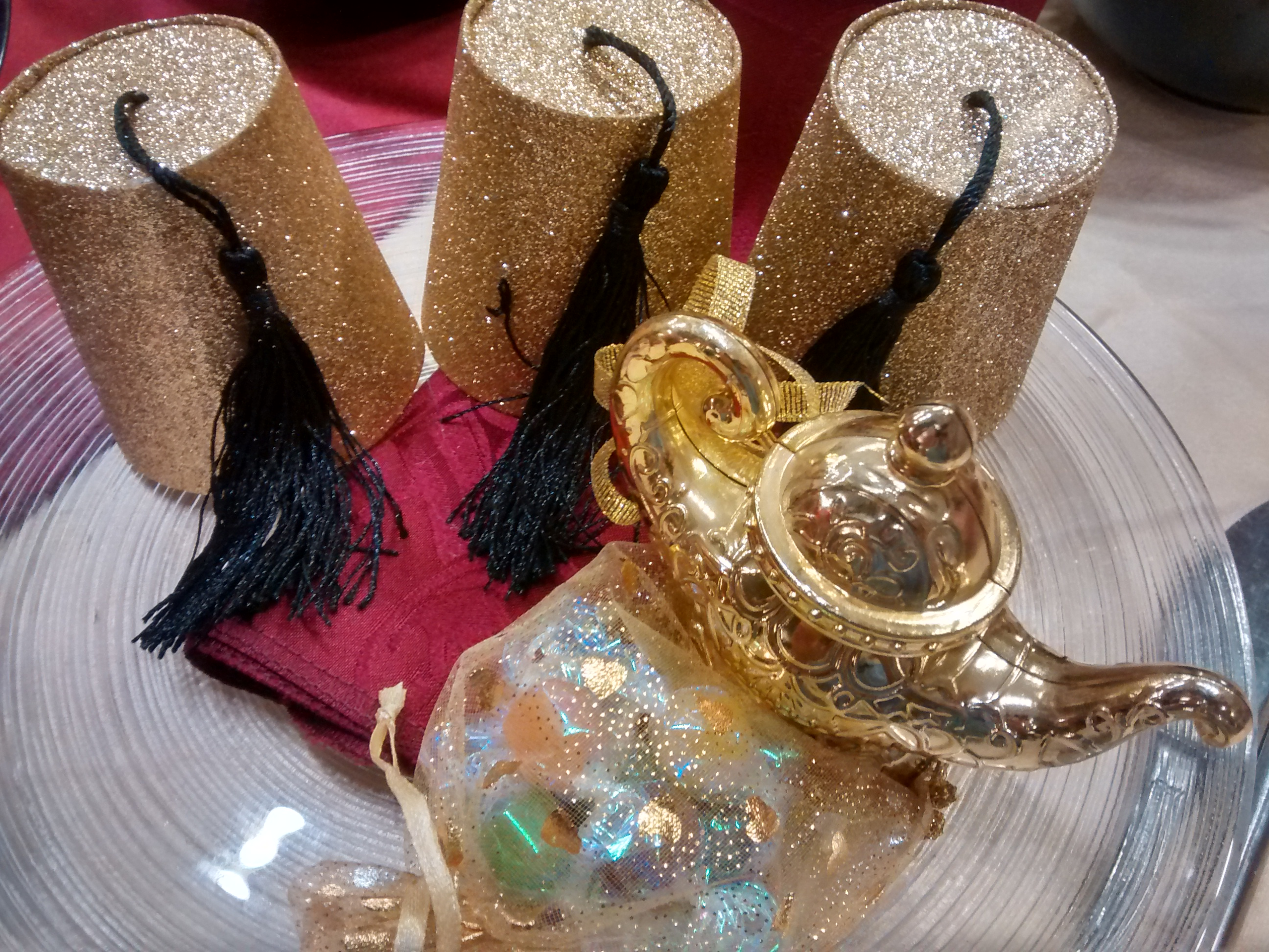 תרבושים מנורת אלאדין ממתקים